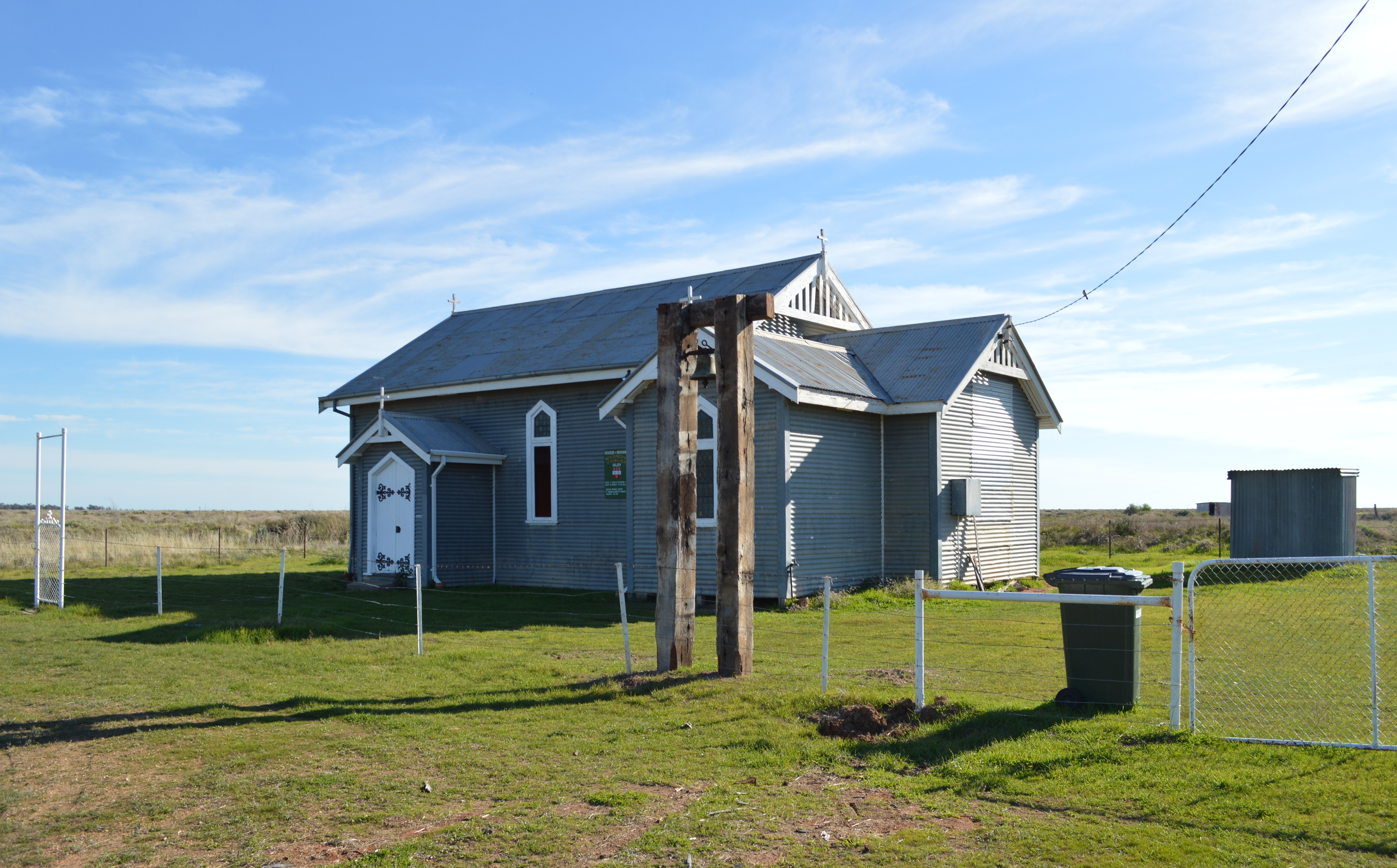 St Barnabas' Anglican church at Oxley, New South Wales